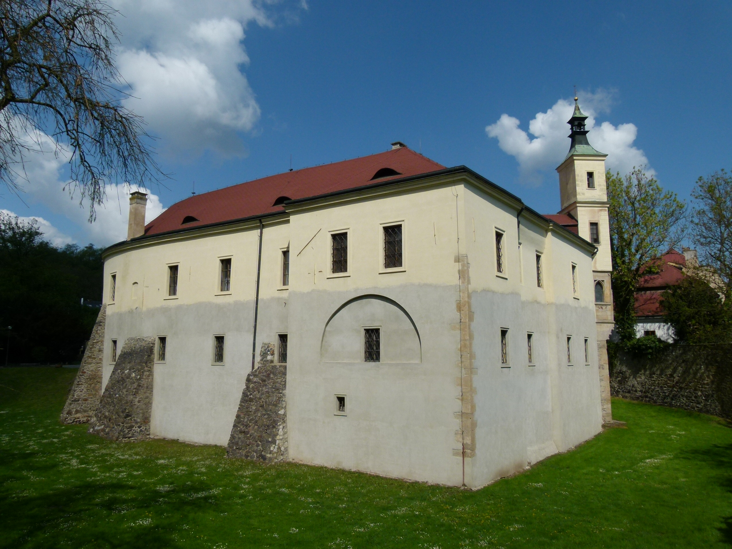 Stronghold in Roztoky